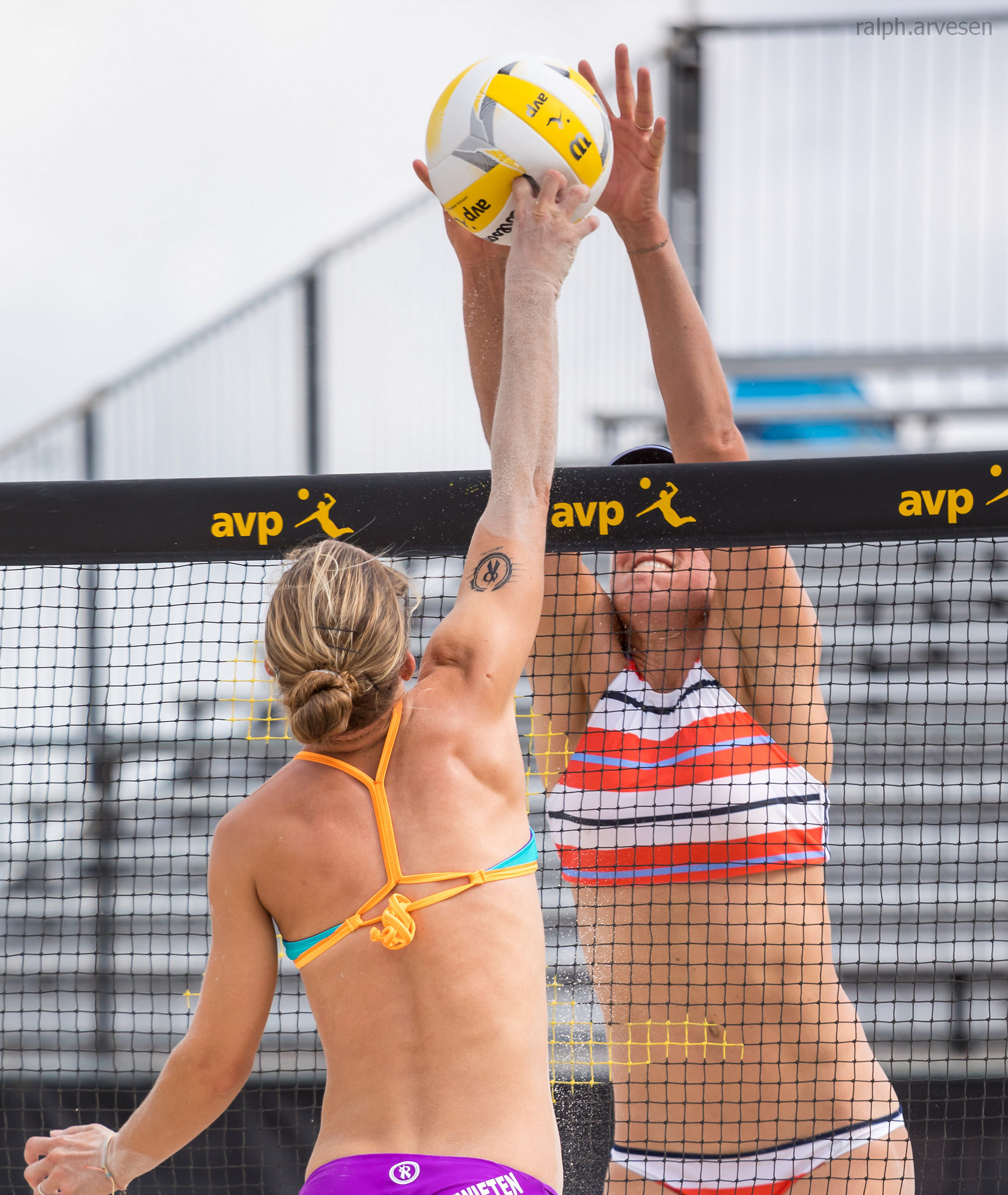 AVP Austin Open professional beach volleyball tournament in Austin, Texas on May 19, 2017. AVP Austin Open professional beach volleyball tournament in Austin, Texas on May 19, 2017.